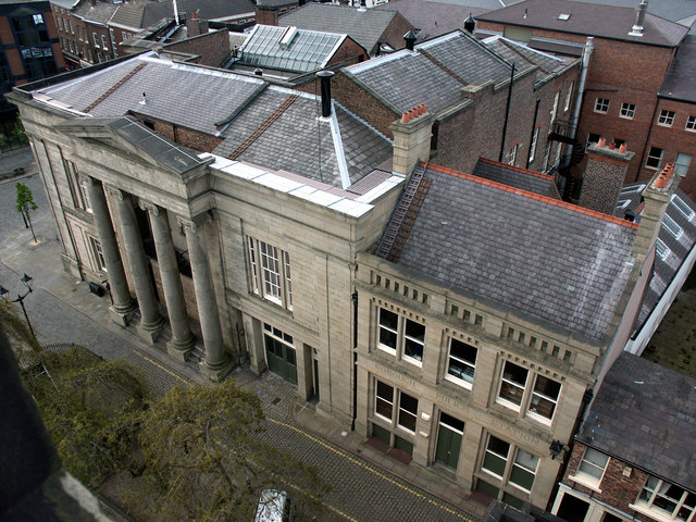 Macclesfield Town Hall and old Police Station This is a photograph of Macclesfield Town hall and the old police station, note the carving above the door way. This was taken from the roof of St Michael Church which stands proudly next door to the town hall.